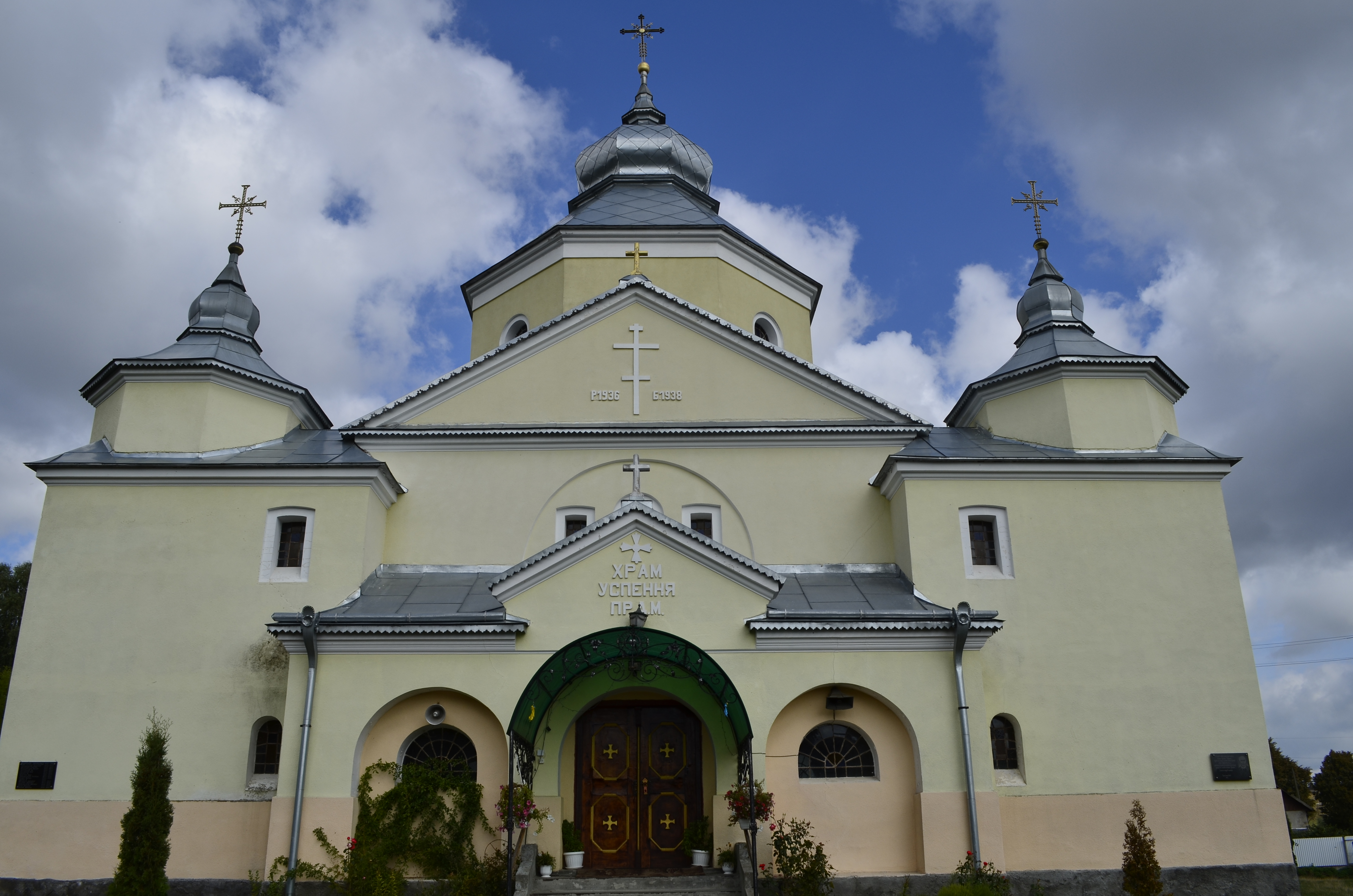 Verbiv, Berezhany Raion